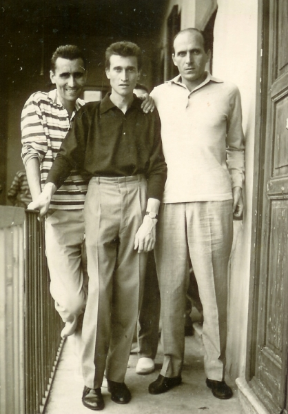 Stefano Serchinich, Armando Zambaldo and Pino Dordoni at a collegial rally in Asiago in the 1958